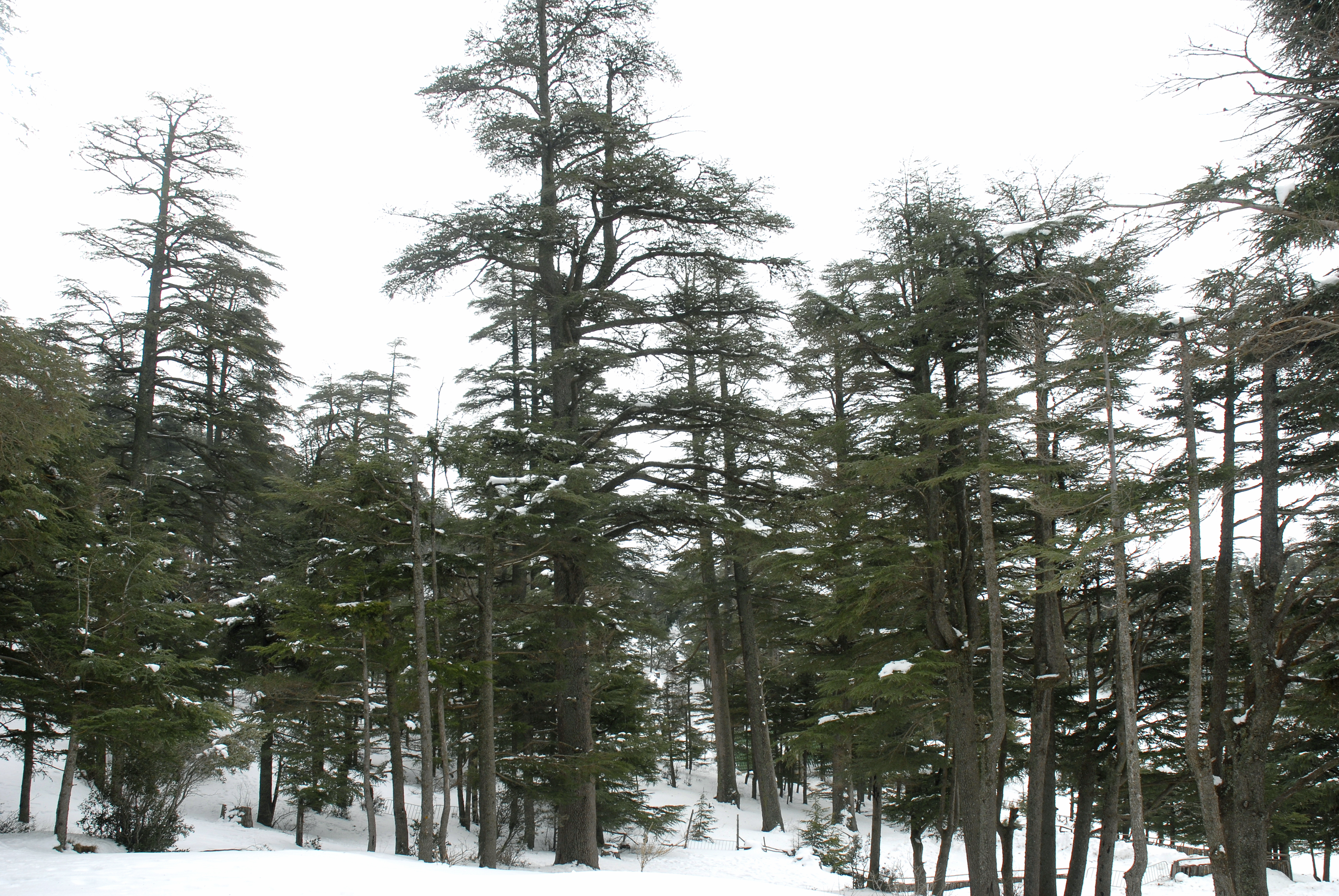 syn: Cedrus libani var. atlantica], an Atlas Cedar bosque in their native Atlas Mountains habitat, Morocco.